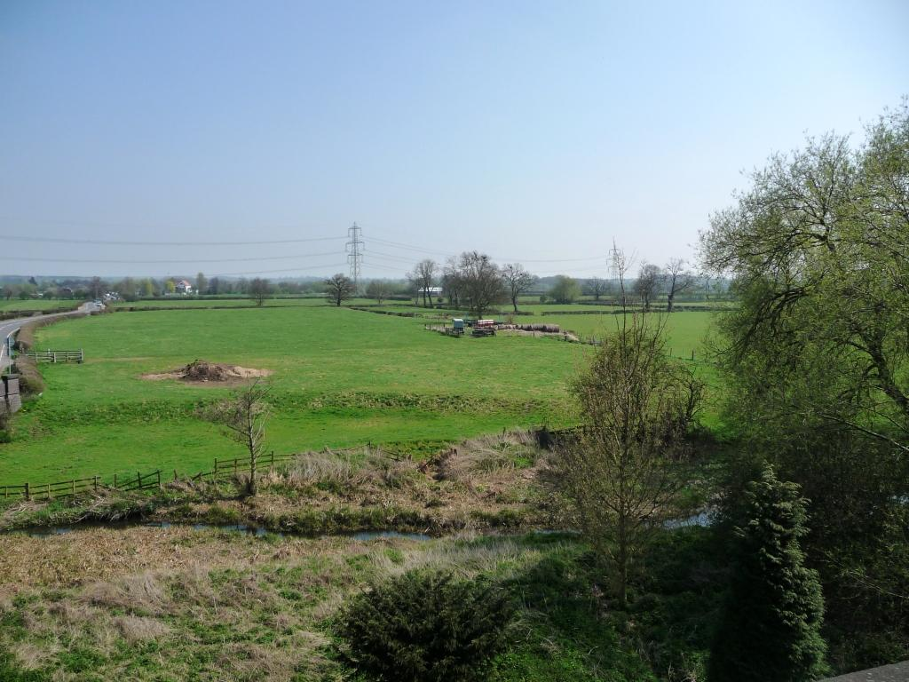 The Soar flood plain. The channel in the foreground is not the main river. That is beyond the power lines. Taken from an open window on a Great Central Railway [Nottingham] heritage train.